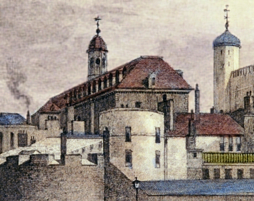 The Tower of London from Tower...